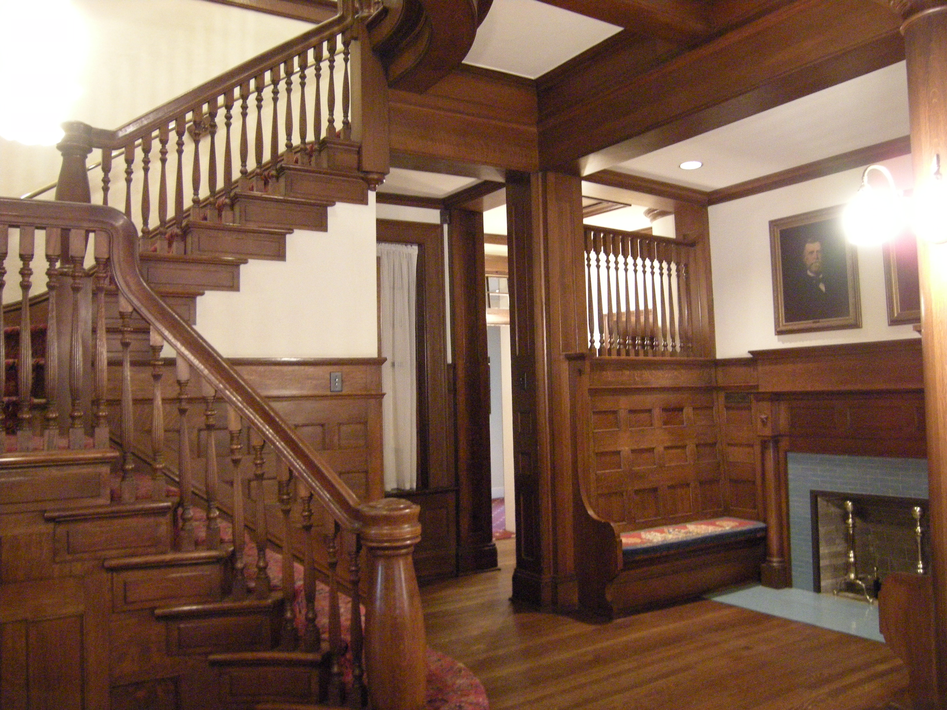 Interior, Alfred Horatio Belo House (A. H. Belo House), Arts District, Dallas, Texas. Originally home of newspaper publisher A. H. Belo; added onto as a funeral home; now headquarters of the Dallas Bar Association and Dallas Bar Foundation.